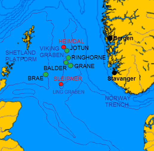 Own map of Utsira Formation oil fields. Position in the North Sea between Viking Graben and Norway Trench.